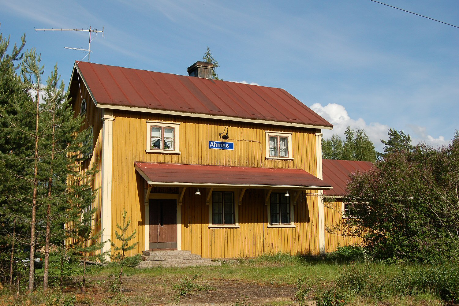 Discontinued railway station at Ahmas, Utajärvi, Finland, on the Oulu–Kontiomäki line. Currently the building is a private residence.